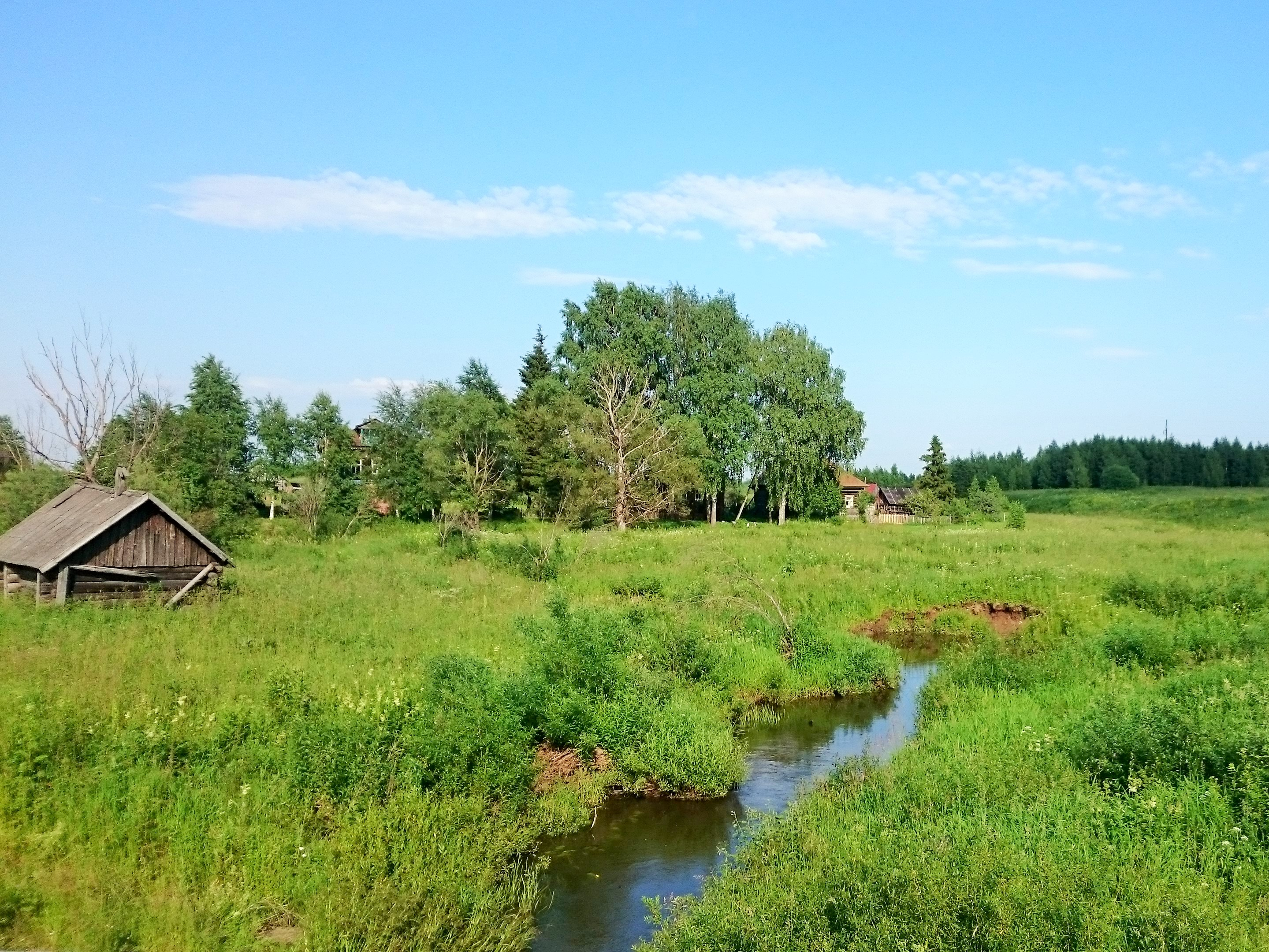 The Ukhtanka River in Nekrasovsky Raion, Yaroslavl Oblast, Russia.